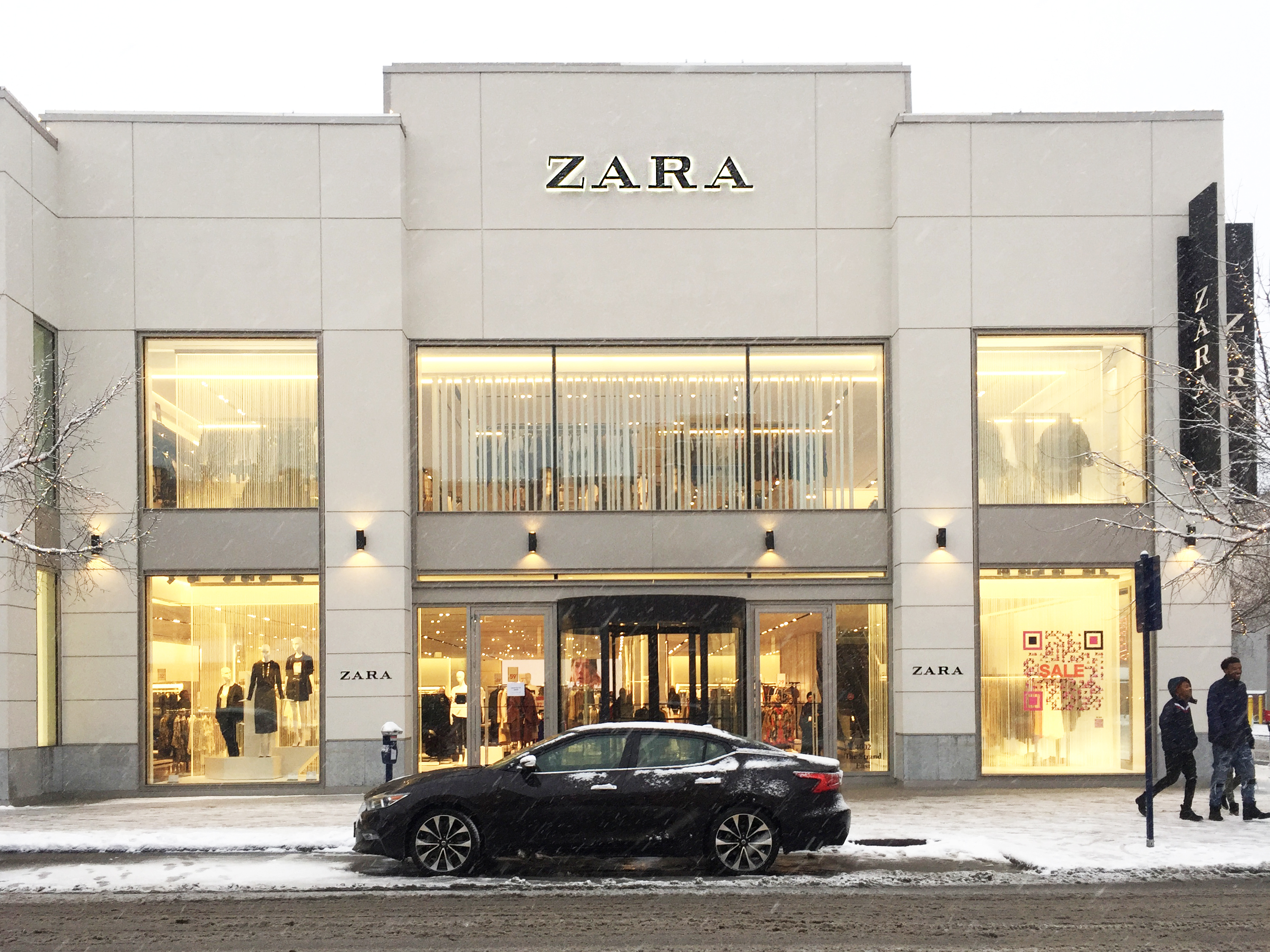 Zara store in Columbus, Ohio, United States